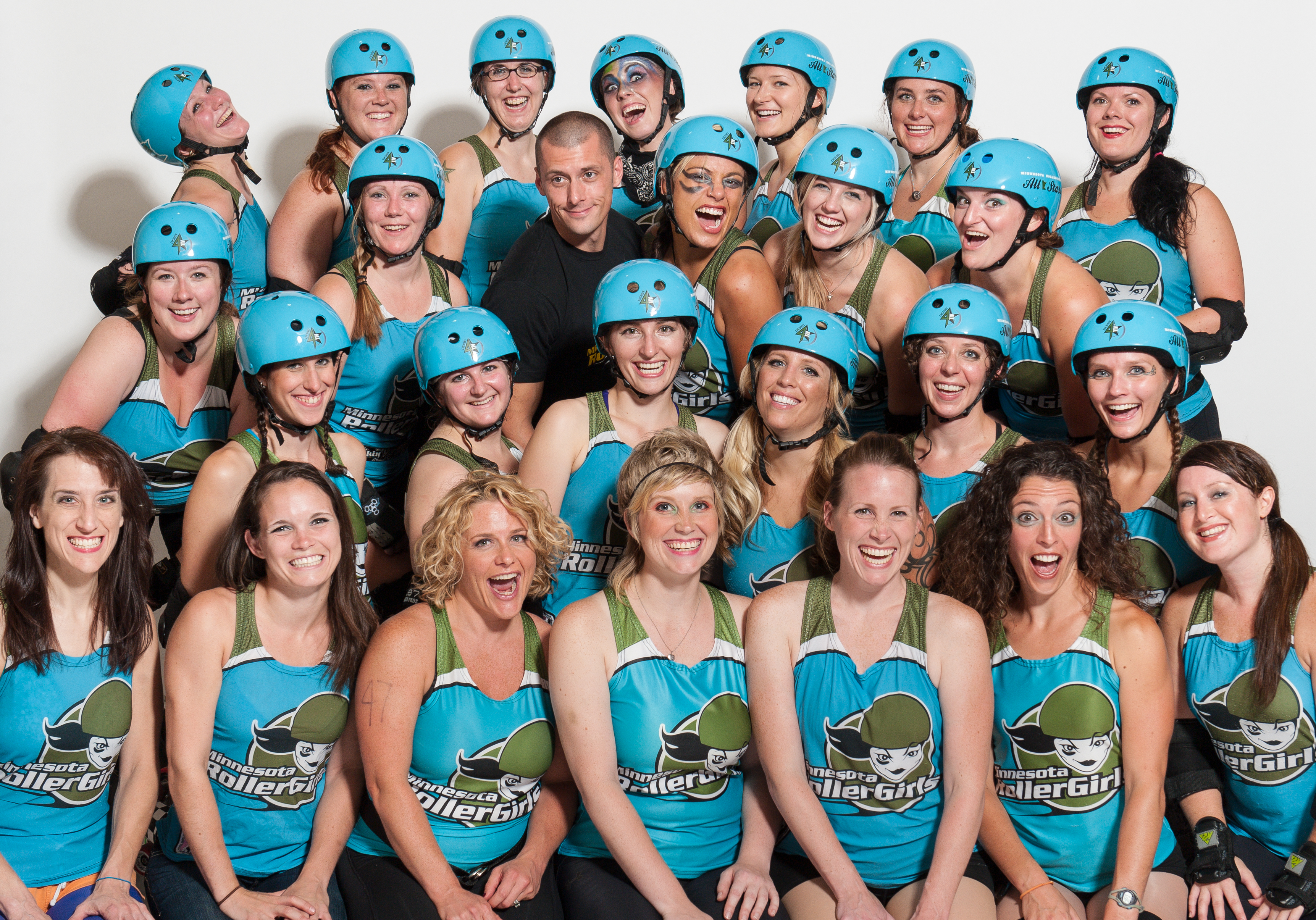 Team photo of the Minnesota RollerGirls All-Star Team Fall 2012